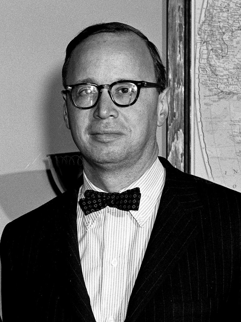 Arthur M. Schlesinger Jr., historian and Special Assistant to President John F. Kennedy